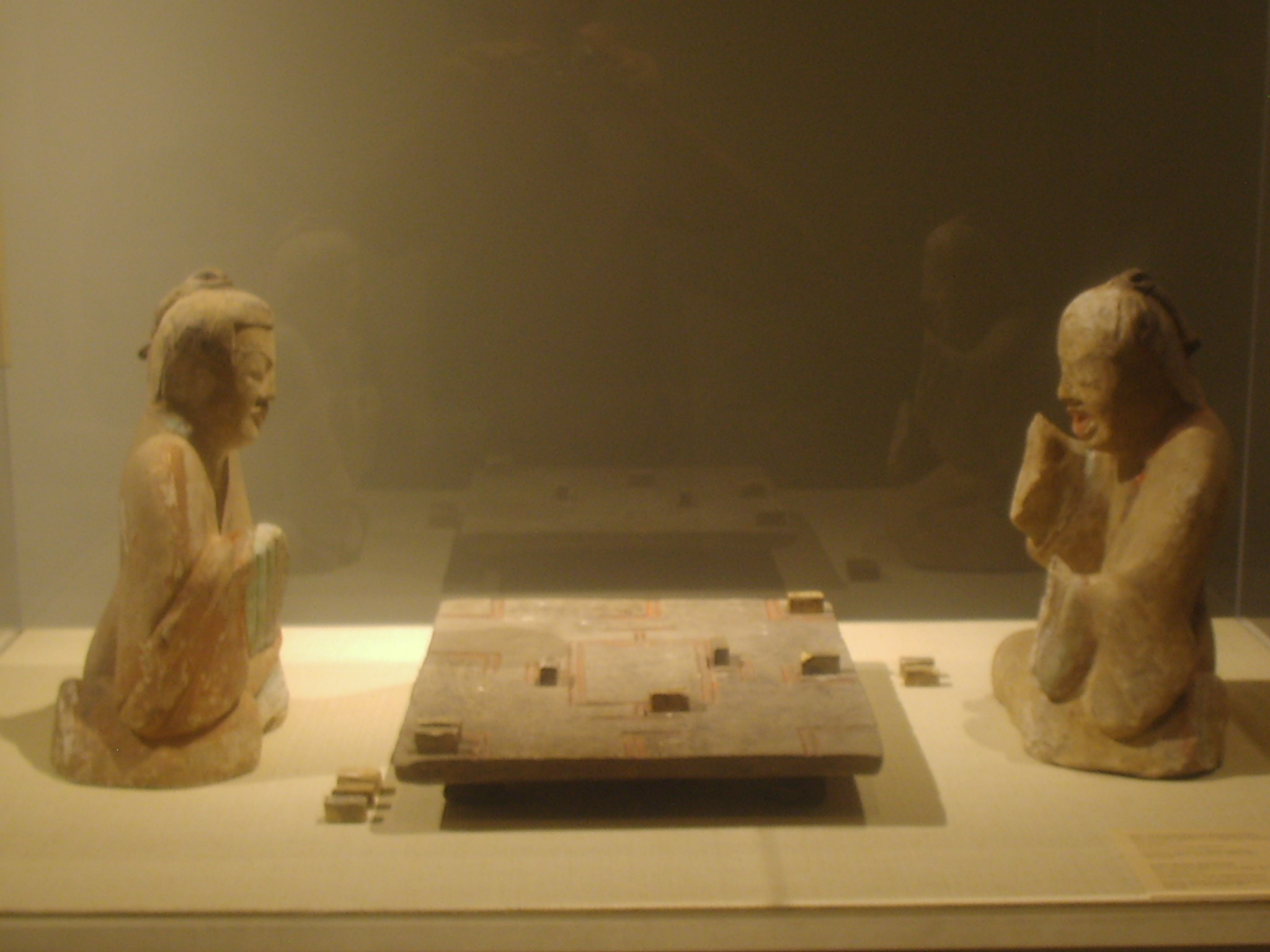 A pair of seated earthenware figures playing on a model Liubo board game, made during the 1st century in the Chinese Eastern Han Dynasty (25–220 AD). The Metropolitan Museum of Art caption reads: A popular game in the Han Dynasty, liubo involves two players who gamble using dice, counters, gaming pieces, and a marked board. The pottery figures exhibited in this case, together with the daily utensils, architecture models, and luxury goods exhibited in the other cases in the gallery, were used as tomb furnishings in ancient China. The liubo players, who are depicted at a dramatic moment in a heated game, represent Han Dynasty people's leisure activities as well as their desired life in the other world.